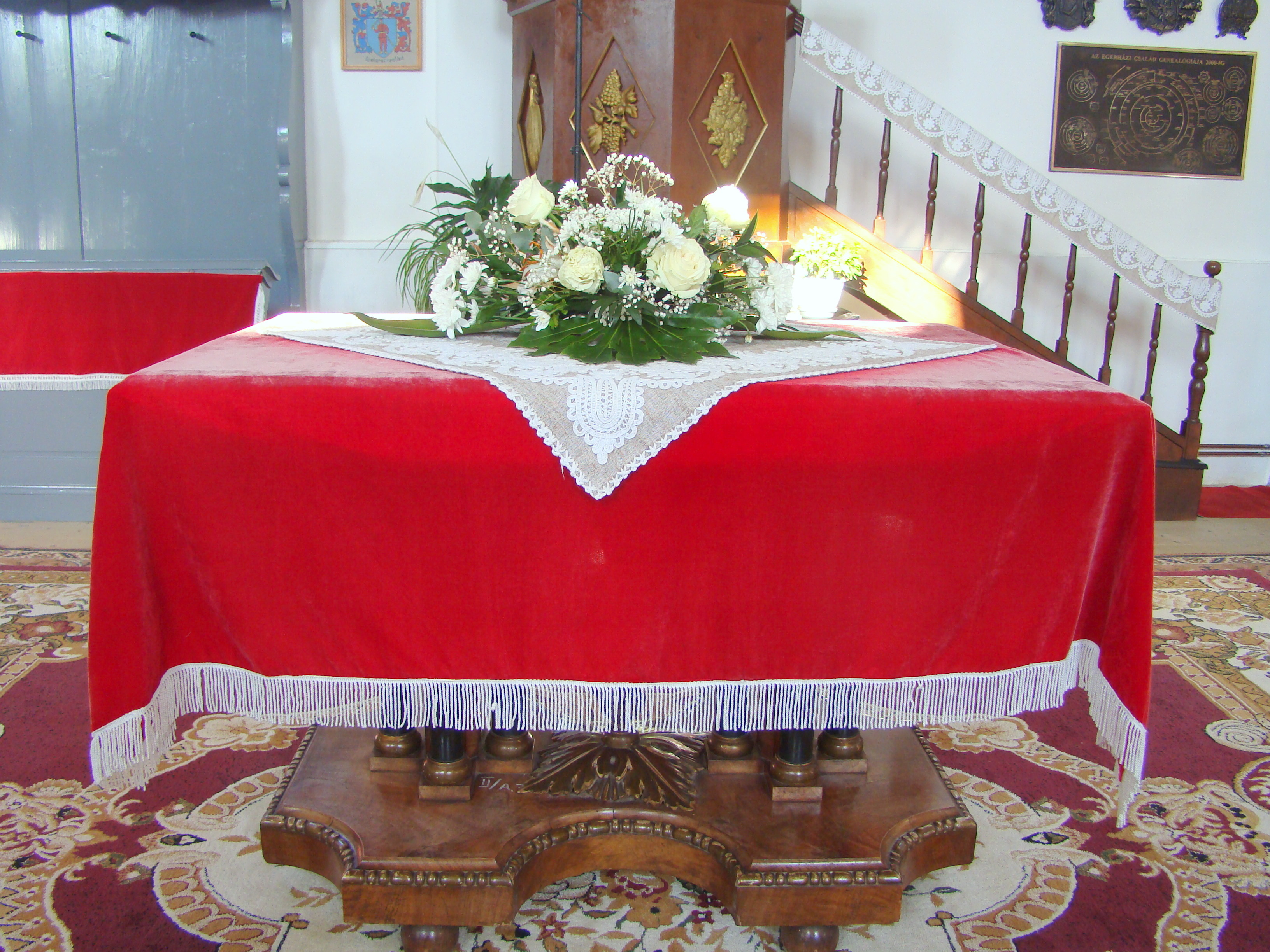 Reformed church in Band, Mureș County, Romania